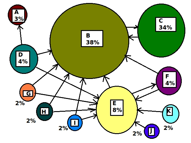 Diagram to illustrate concept of PageRank (continued). Google uses complex mathematical algorithms to guess which websites a user seeks. Since website B is the recipient of numerous inbound links, it ranks more highly in a web search. And the links "carry through", such that website C, even though it only has one inbound link, has an inbound link from a highly popular site, website B. Note: percentages are rounded.